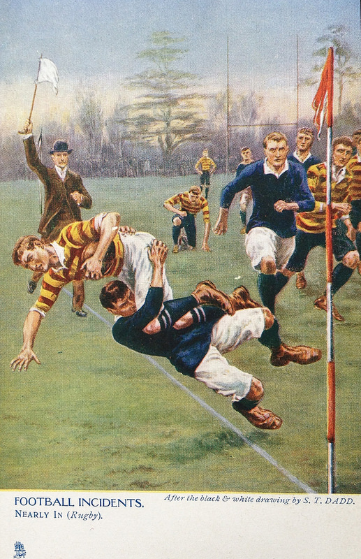 A football game (half association, half rugby), part of the "Football Incidents" series.